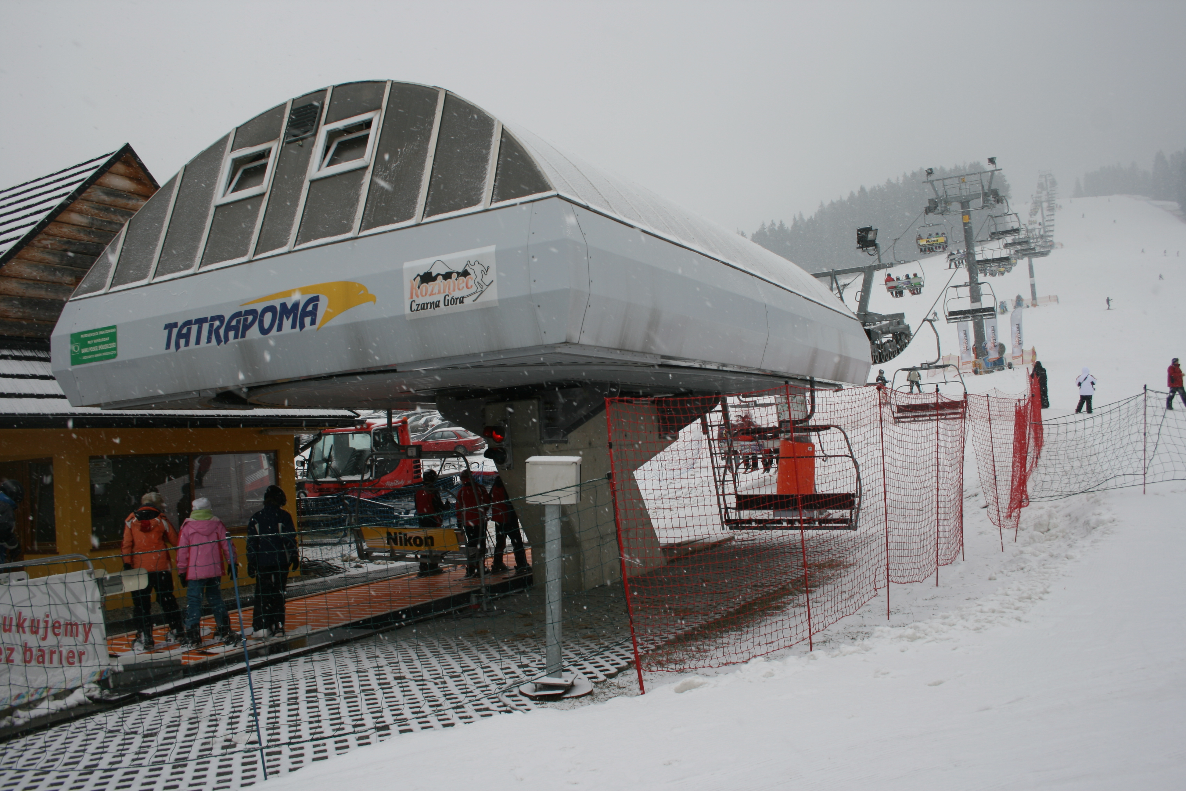 Lower terminal of Koziniec chairlift in Czarna Góra